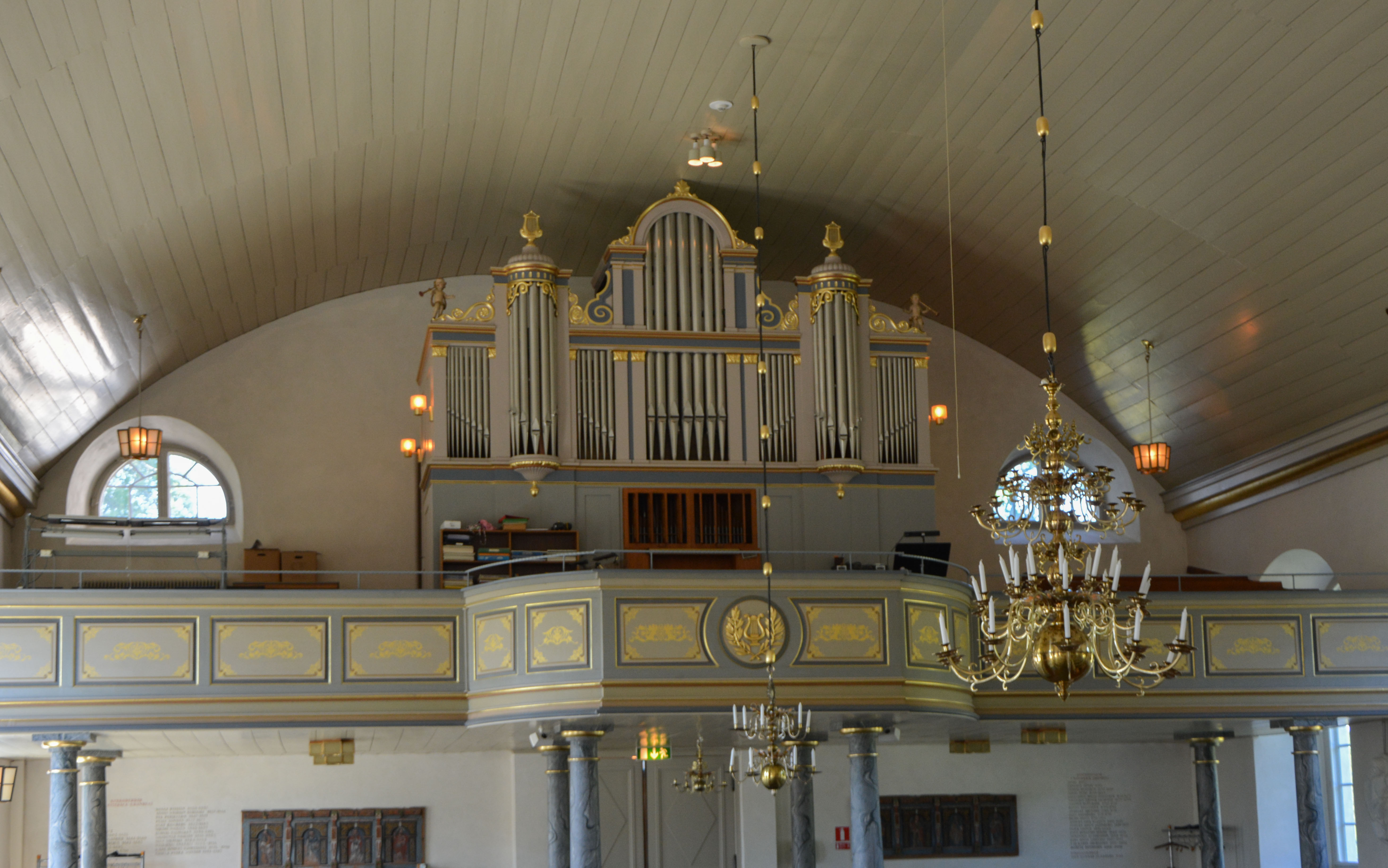 Nottebäck Church. The organ